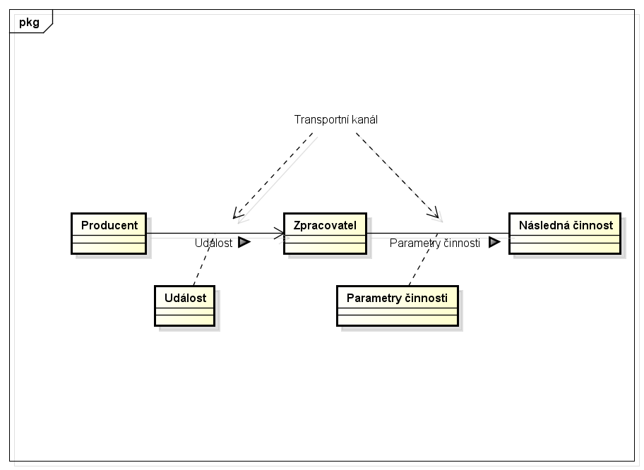 Event-driven architecture - Event flow diagram